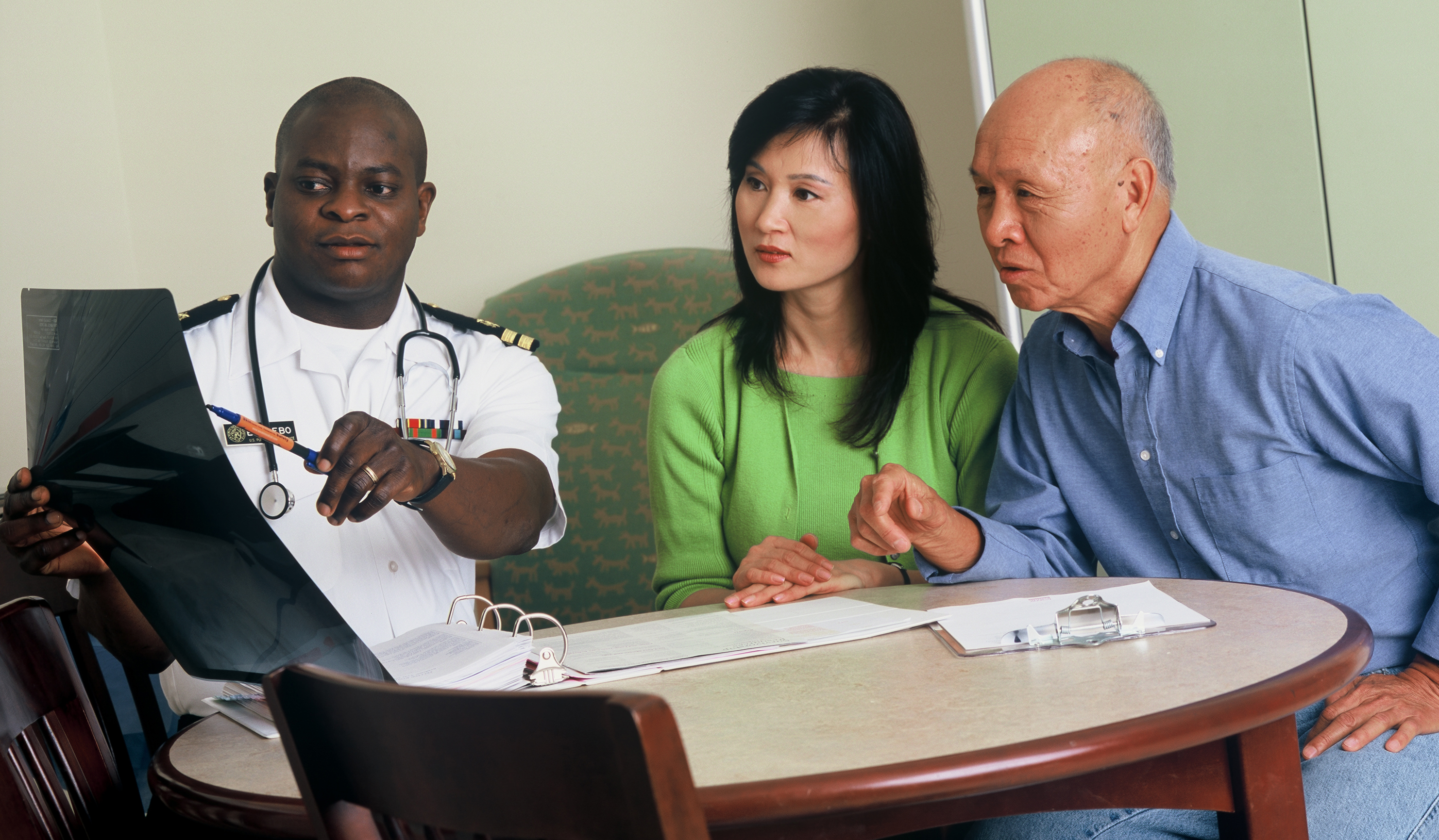 Title Doctor Explains X-ray to Patient Description An African American male doctor wearing a Public Health Service uniform is pointing at an x-ray as he explains it to an older Asian male and adult Asian female. Topics/Categories People -- Adult People -- Health Professional and Patient Type Color, Photo Source National Cancer Institute